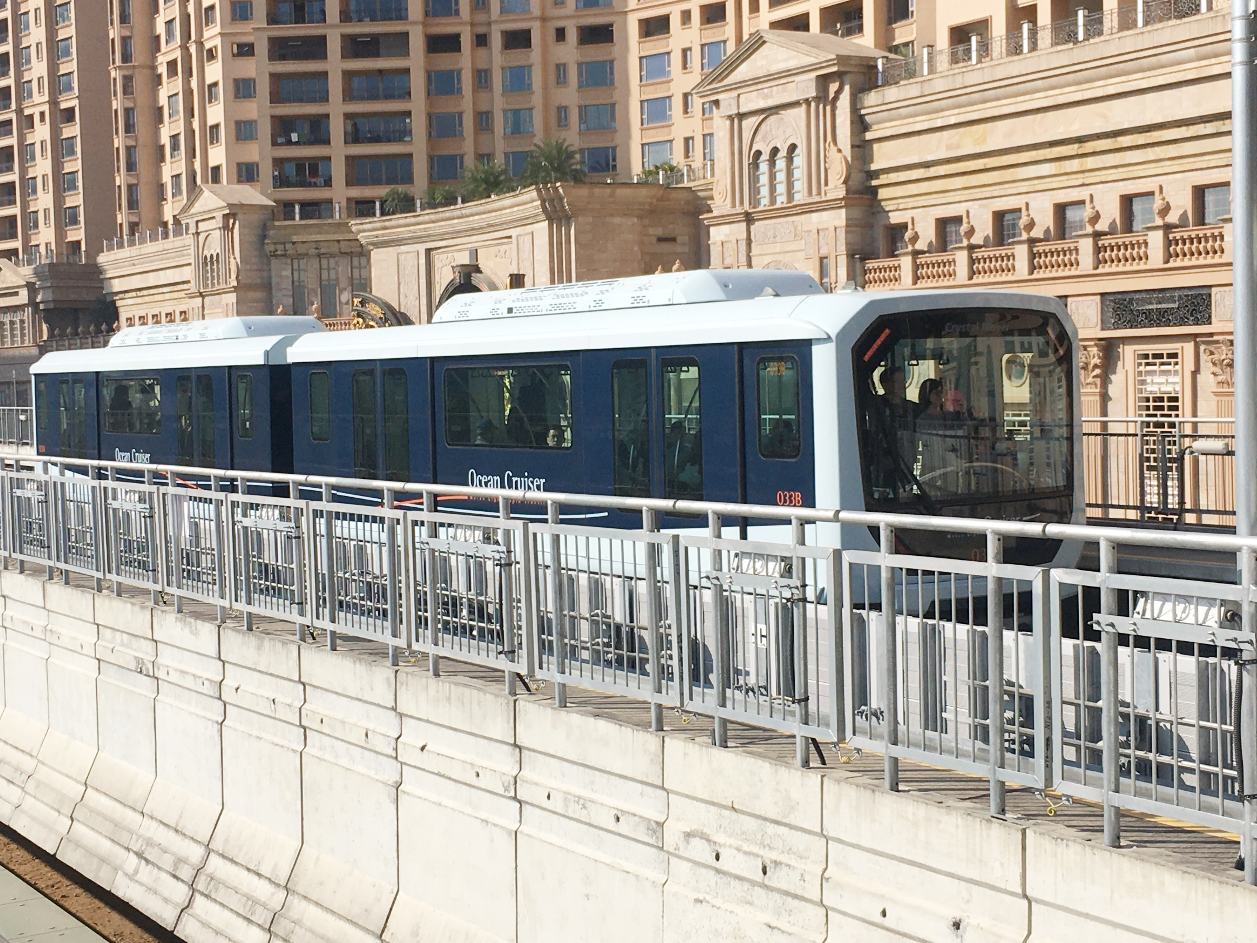 中文（香港）: This photo is taken in Macau LRT.